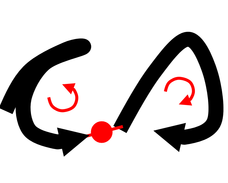 Interrupt with reversal